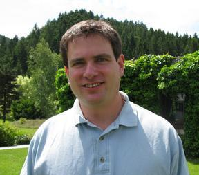 Elon Lindenstrauss is an Israeli mathematician, and a winner of the 2010 Fields Medal